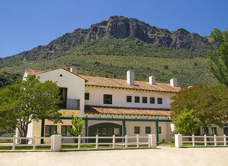 Hotel of Aldeaduero, Salto de Saucelle, in Castile and León, Spain.